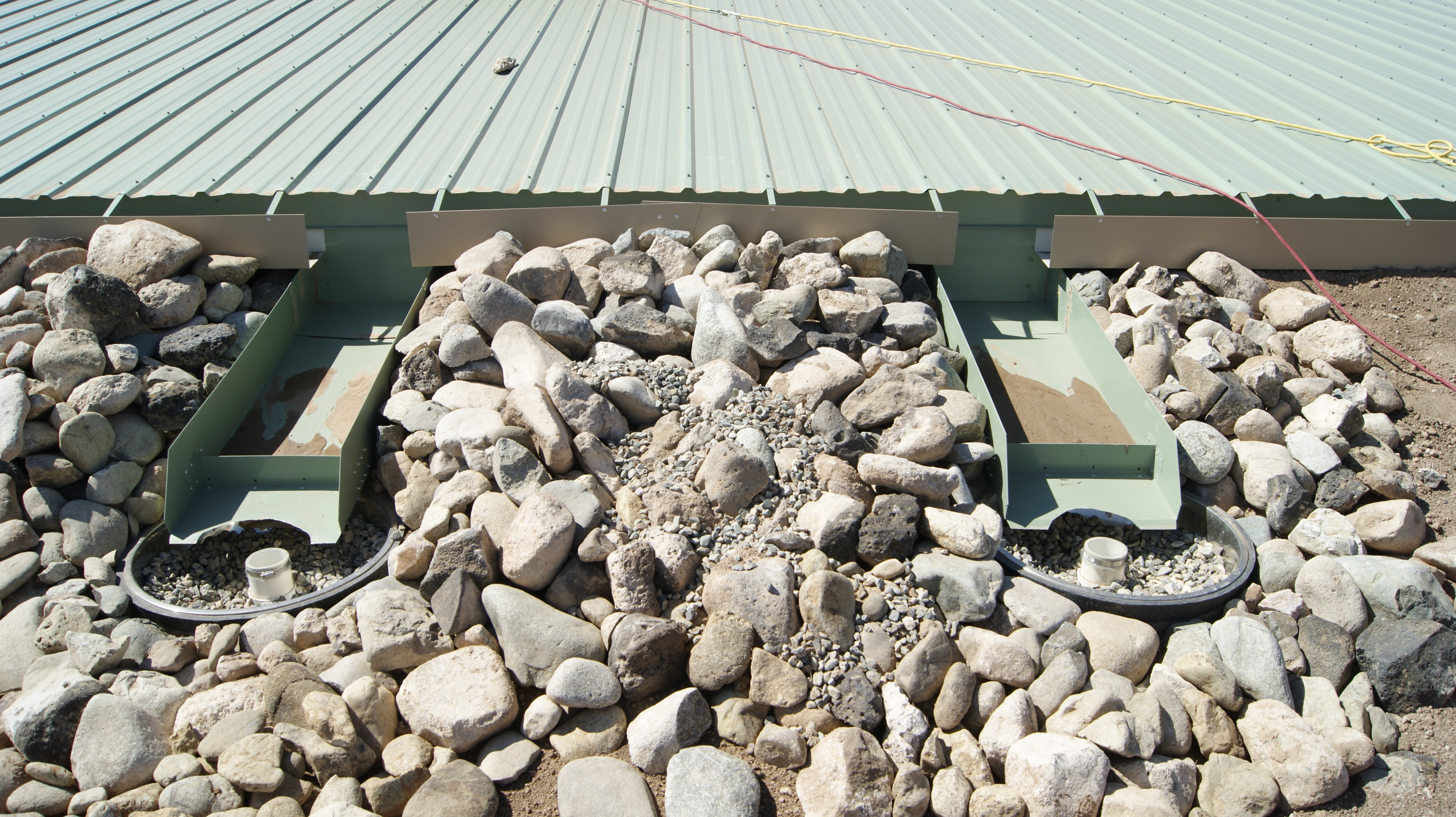 Scupper for Earthship roof catchment